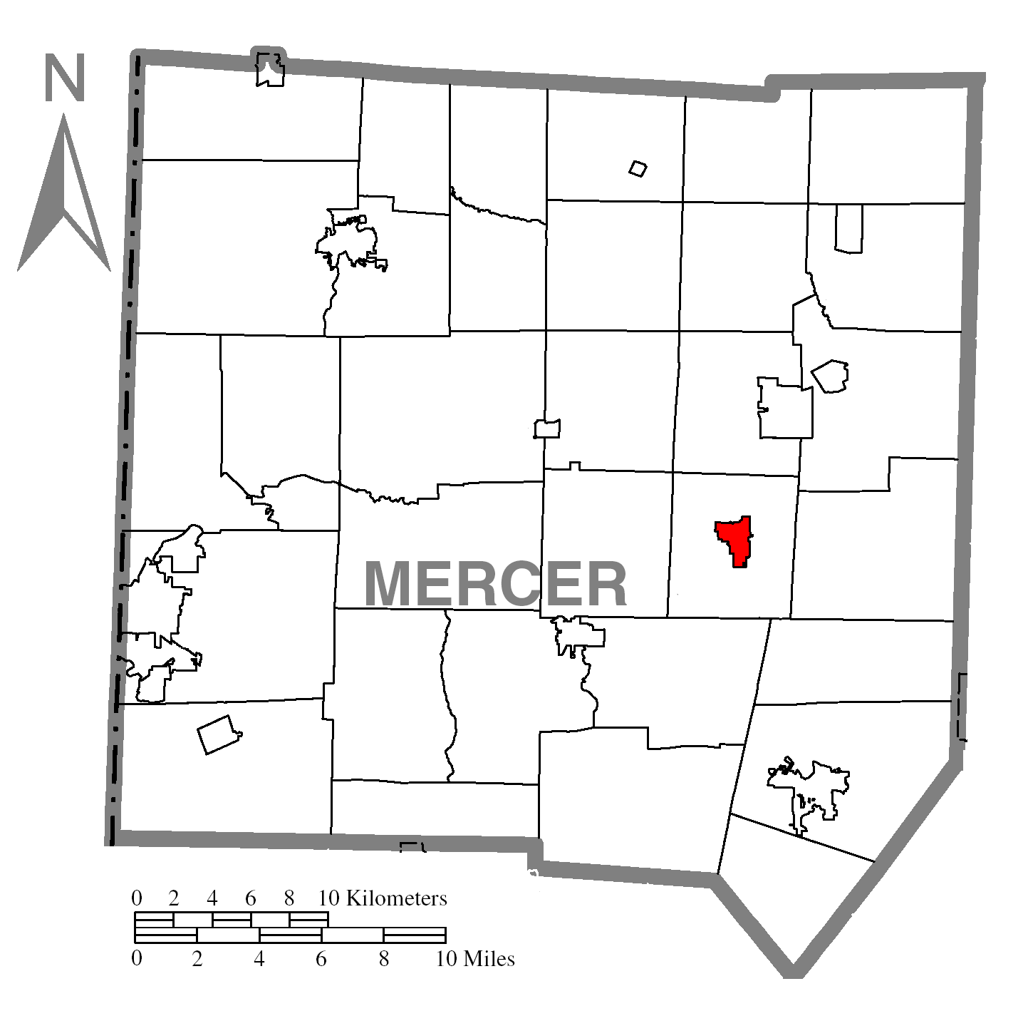 Map of Mercer County higlighting Jackson Center.